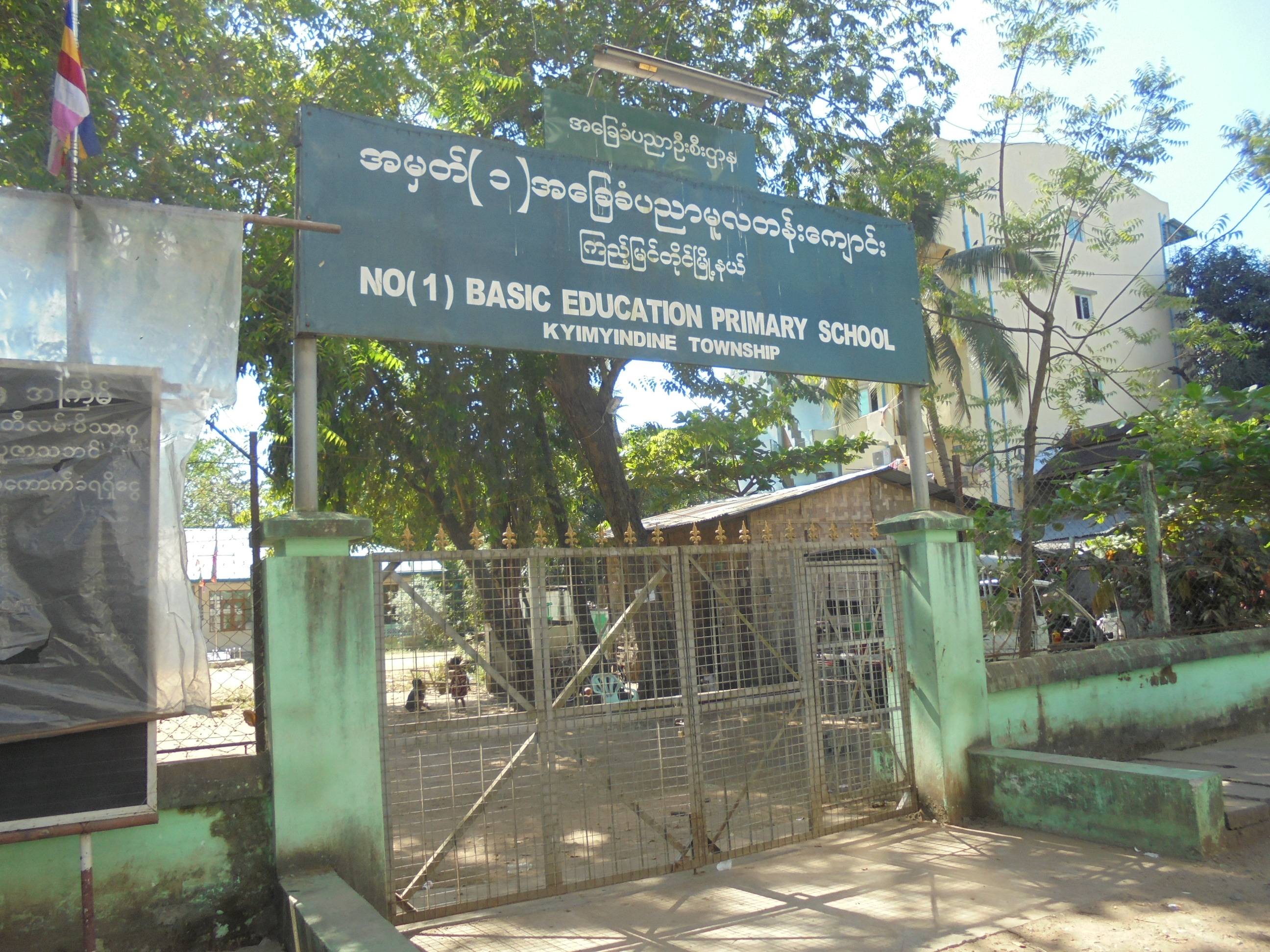 Basic Education Primary School No. 1 Kyimyindaing